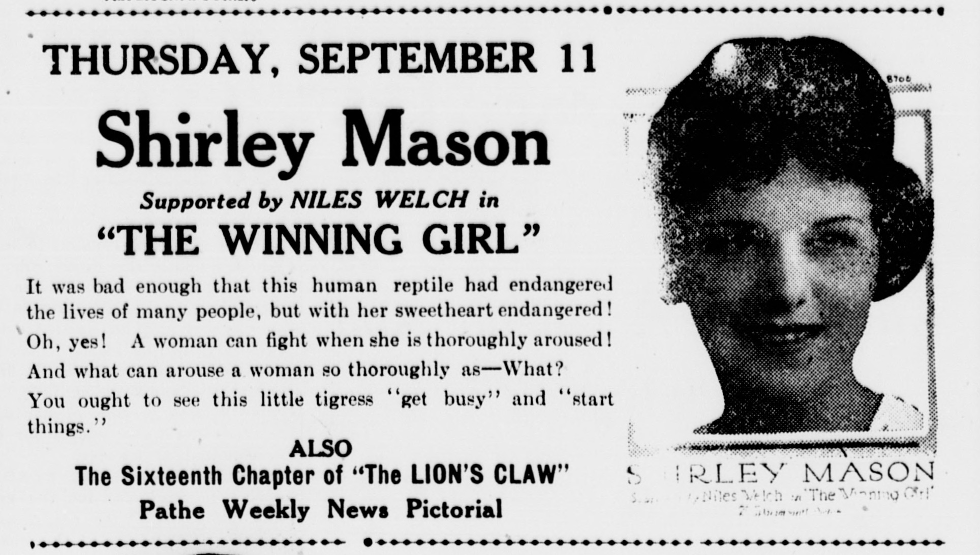 newspaper advert for the The Winning Girl